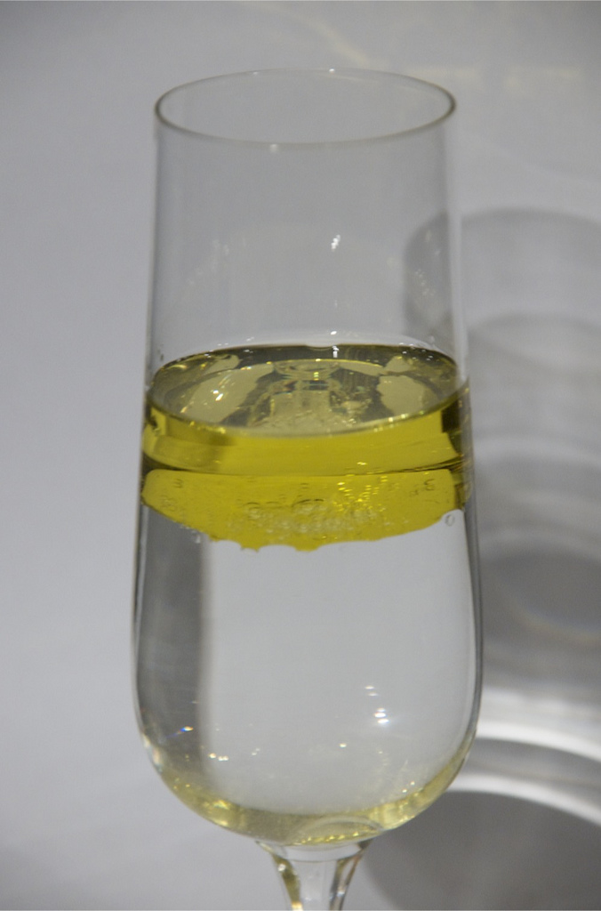 Olive oil in water, demonstrating a two-phase liquid-liquid system.